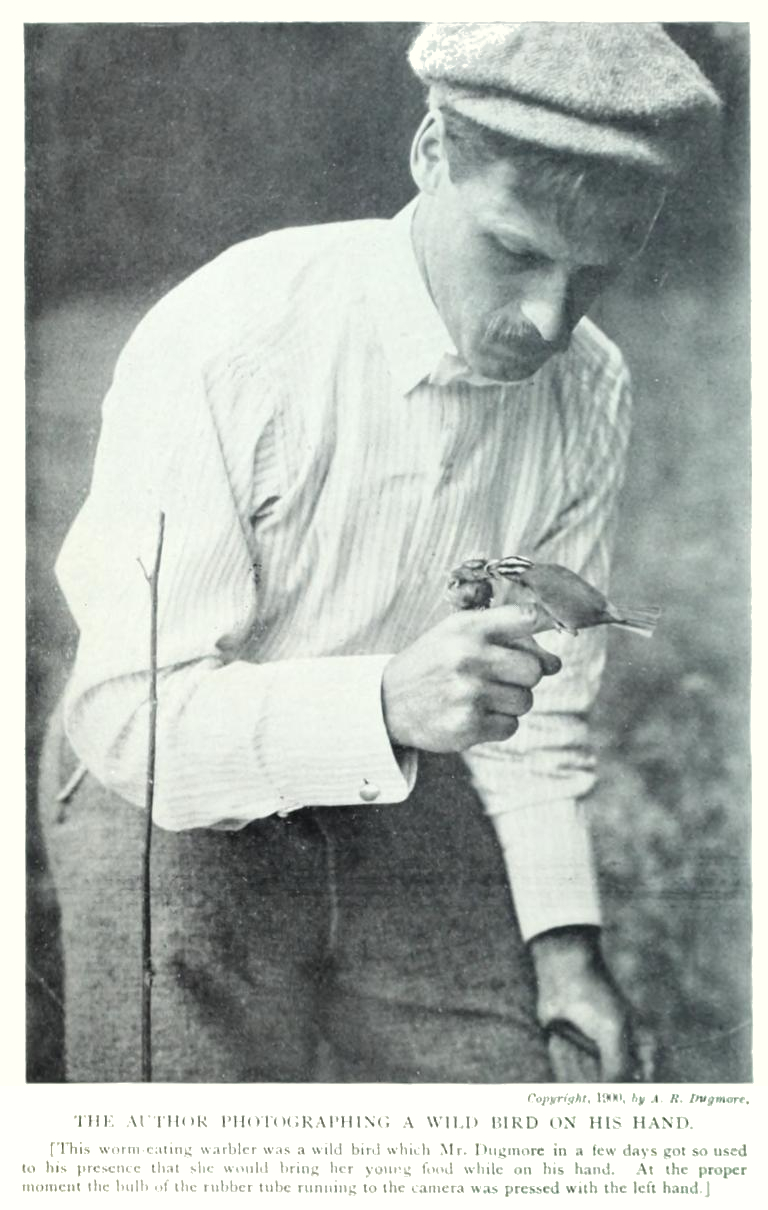 Arthur Radclyffe Dugmore (1870-1955)